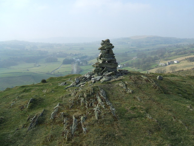 Cairn on Reston Scar Looking towards the village of Ings